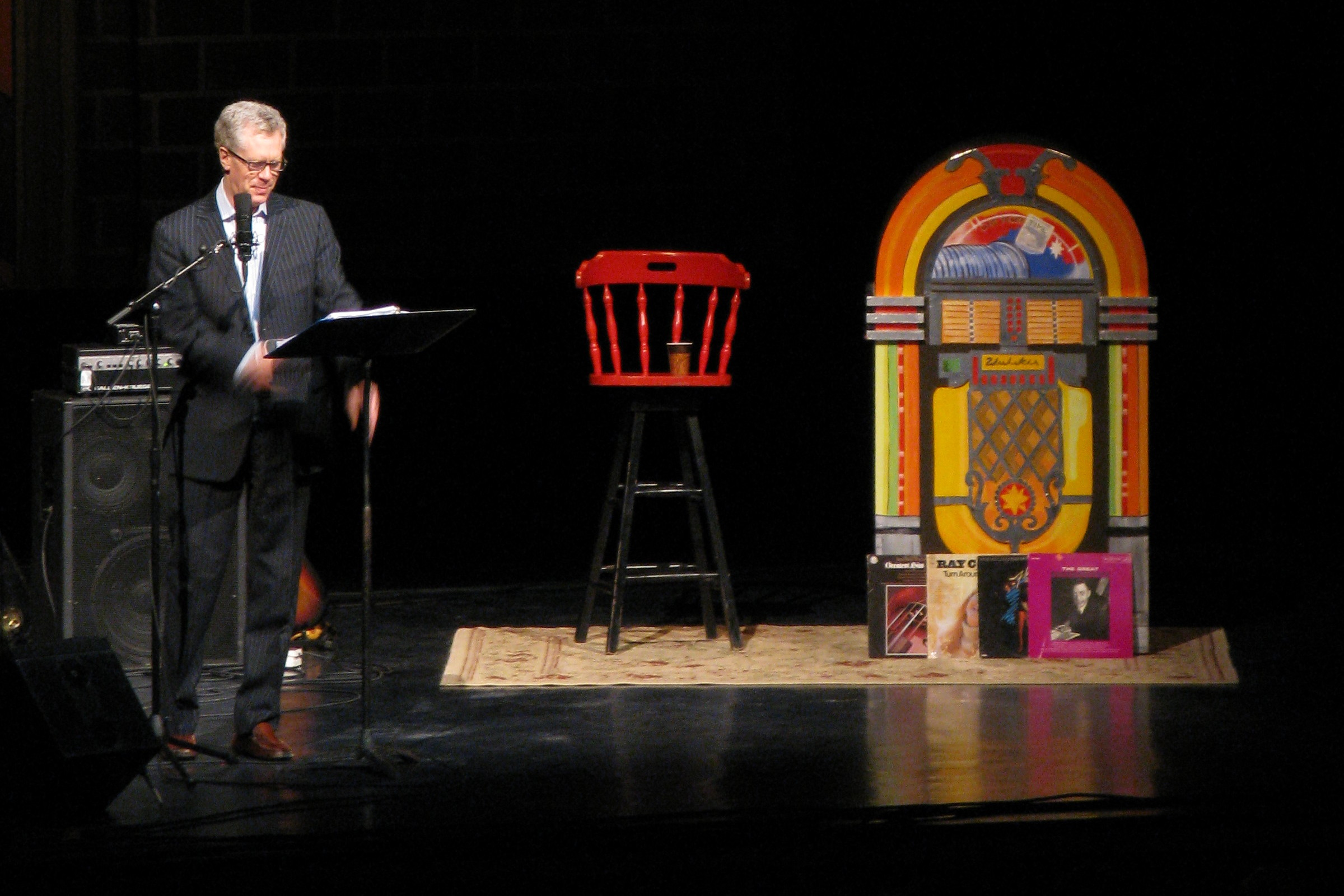 Stuart McLean (born 1948 in Montreal West, Quebec) is a Canadian radio broadcaster, comedian and author, best known as the host of the CBC radio programme The Vinyl Cafe. He is often described as a "story-telling comic", though he has written many serious stories. He is well-known for his very distinctive voice.